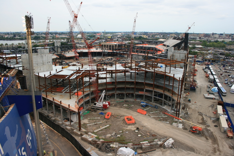 View of Citi Field construction site as of September 14th, 2007.